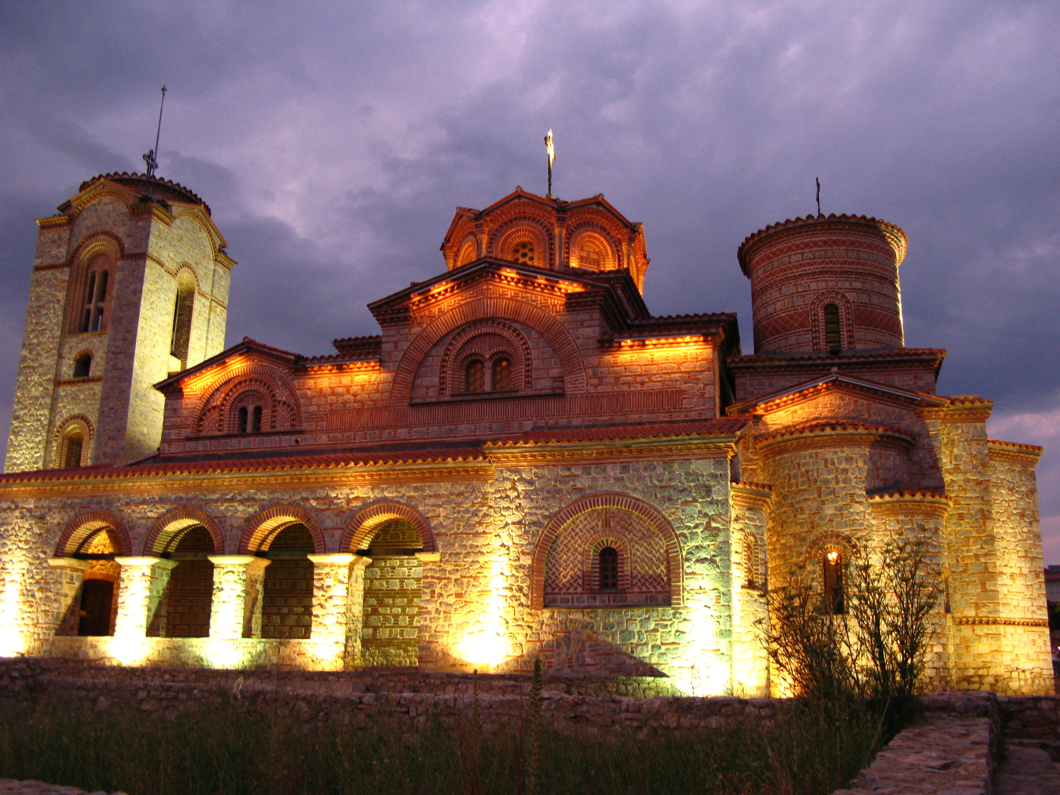 St. Climent church in Ohrid, Macedonia.